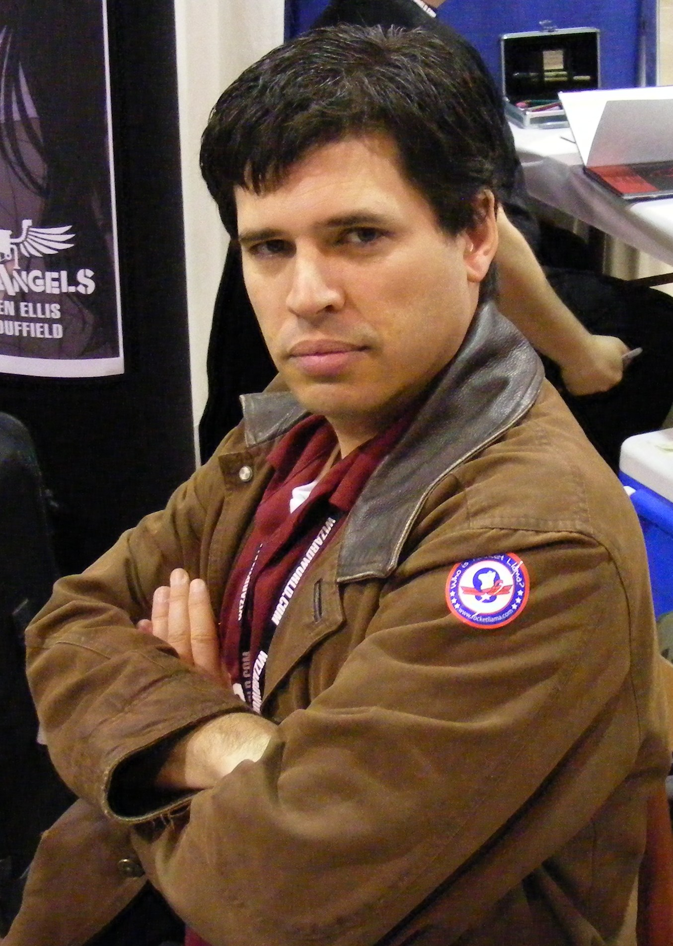 Max Brooks shows off his Rocket Llama patch at Wizard World-Texas. en:2008.